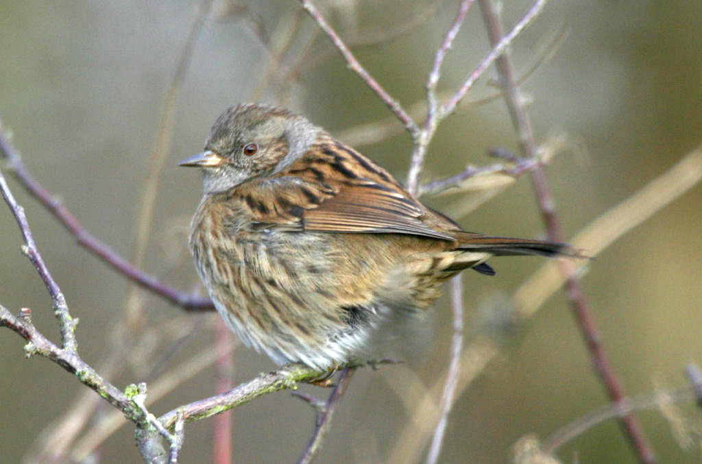 Hedge Accentor (AKA Dunnock) Taken at Rutland Water, England